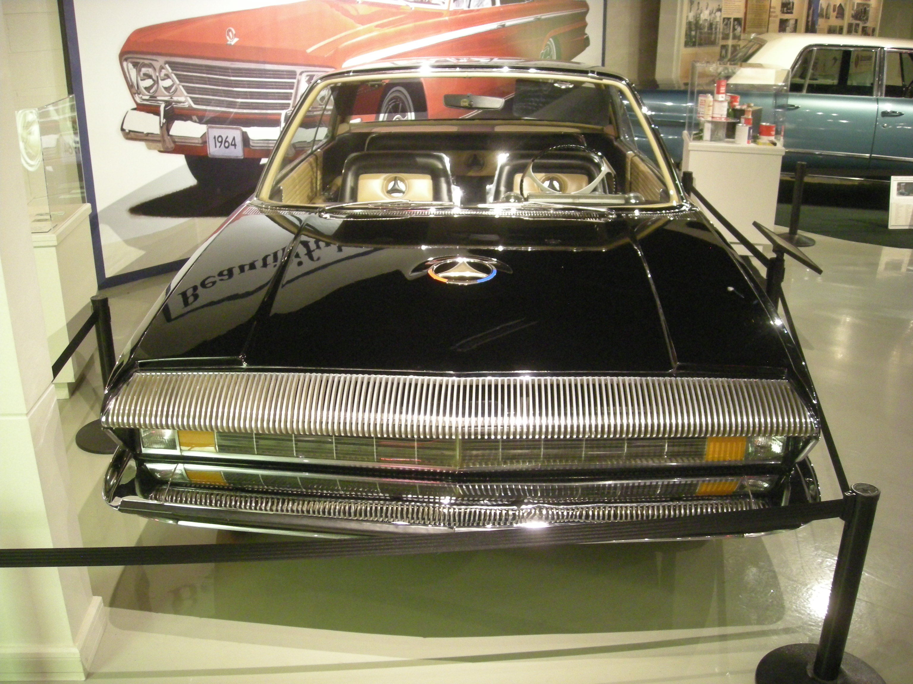 A 1962 Studebaker Sceptre Prototype at the Studebaker National Museum in South Bend, Indiana (United States).